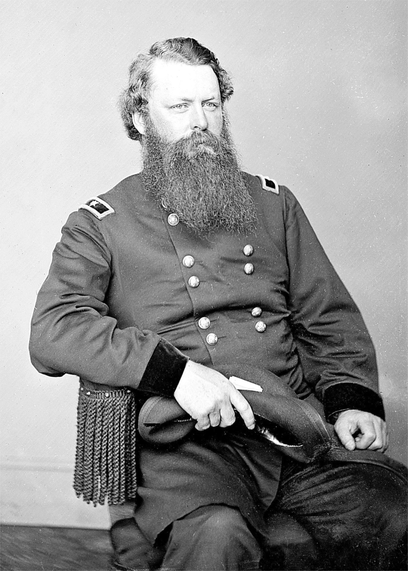 Maj. Gen.William W. Belknap, officer of the Federal Army